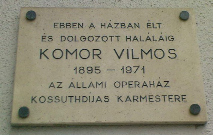 Vilmos Komor commemorative plaque in Budapest District VI, Andrássy Avenue No 2.